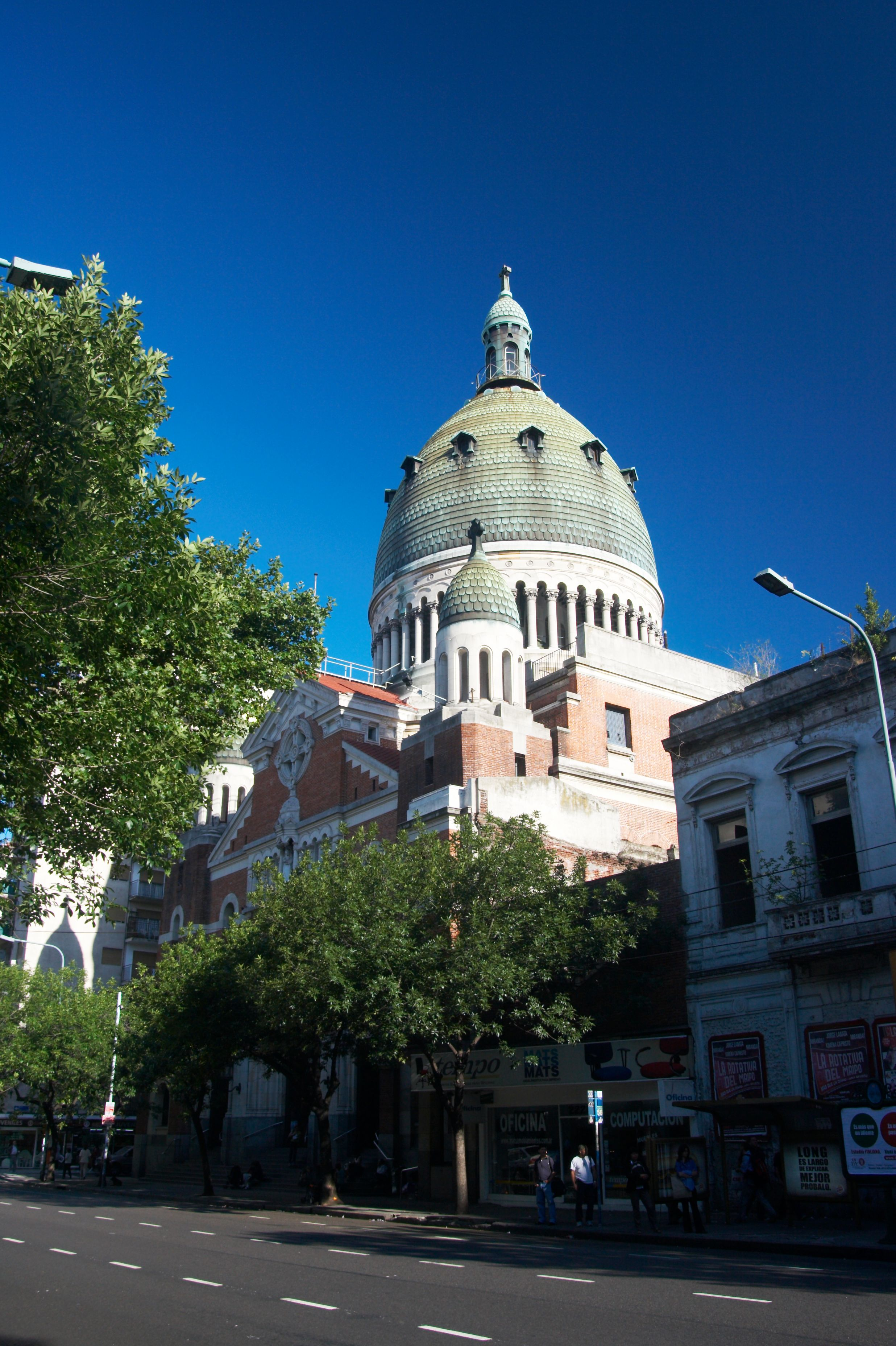 Santa Rosa de Lima basilica, Buenos Aires, Argentina.